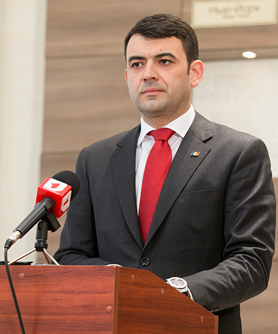 Chiril Gaburici, Prime Minister of Moldova